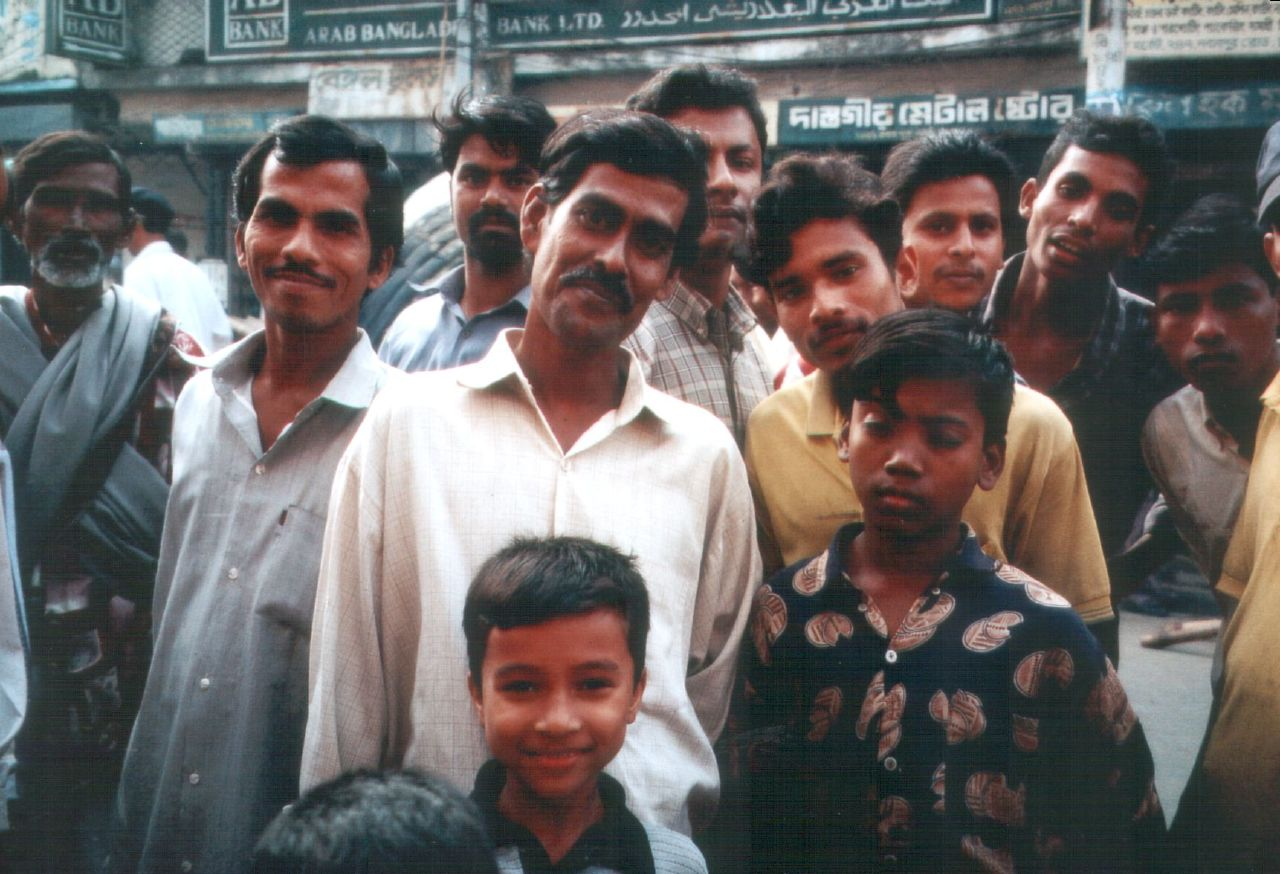 Within the crowds and the noises of Dhaka, people from all around (also from the first and second floors of the surrounding buildings), any time, do take the time to watch you with a tranquil openness you are only left to discover and reconsider on your photos... (Dhaka Bangladesh)